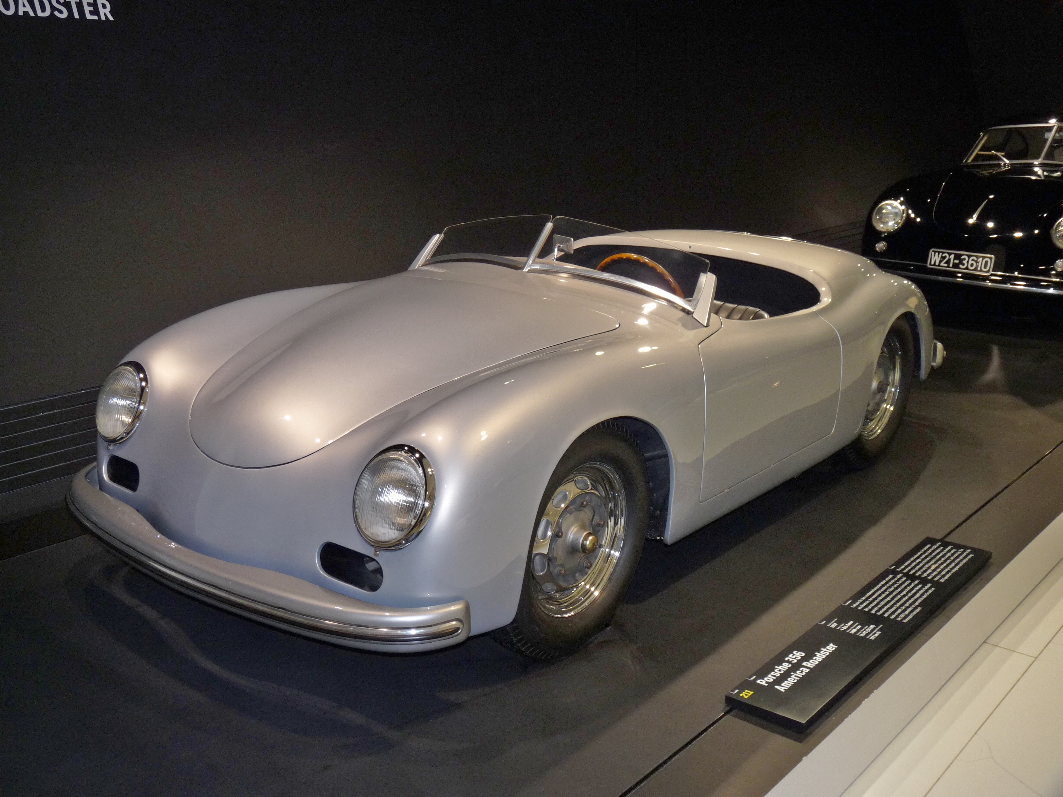 see filename for despcription - seen at Porsche Museum Native namePorsche-MuseumLocationStuttgartCoordinates48° 50′ 07″ N, 9° 09′ 06″ E Established1976 (old museum) 2009 (new museum)Web page control : Q328623 VIAF: 138511768 GND: 2087859-X SUDOC: 155641123 NKC: ko2015876799 institution QS:P195,Q328623